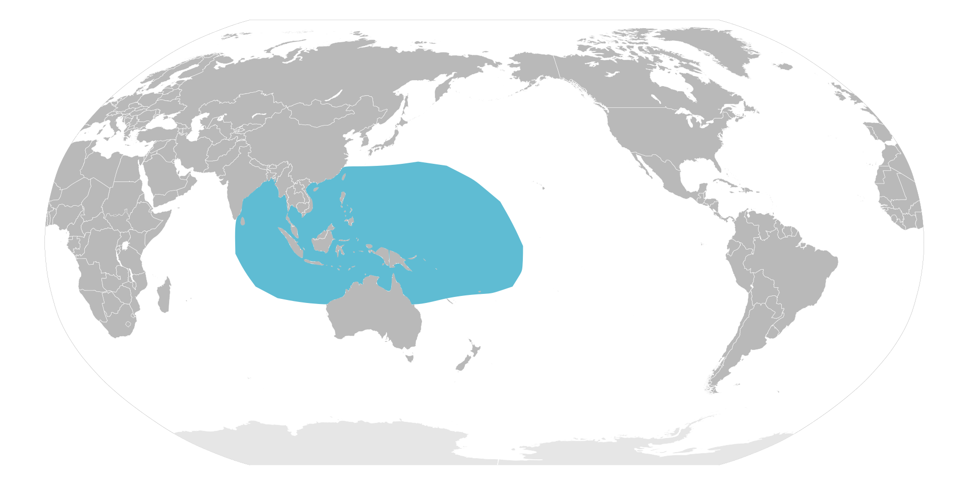 A distribution map for animal species in the Western Indo-Pacific region (sea), many Nembortha species, for example Nembortha cristata call this area home. Made with Inkscape using SVG Blank maps of the World.